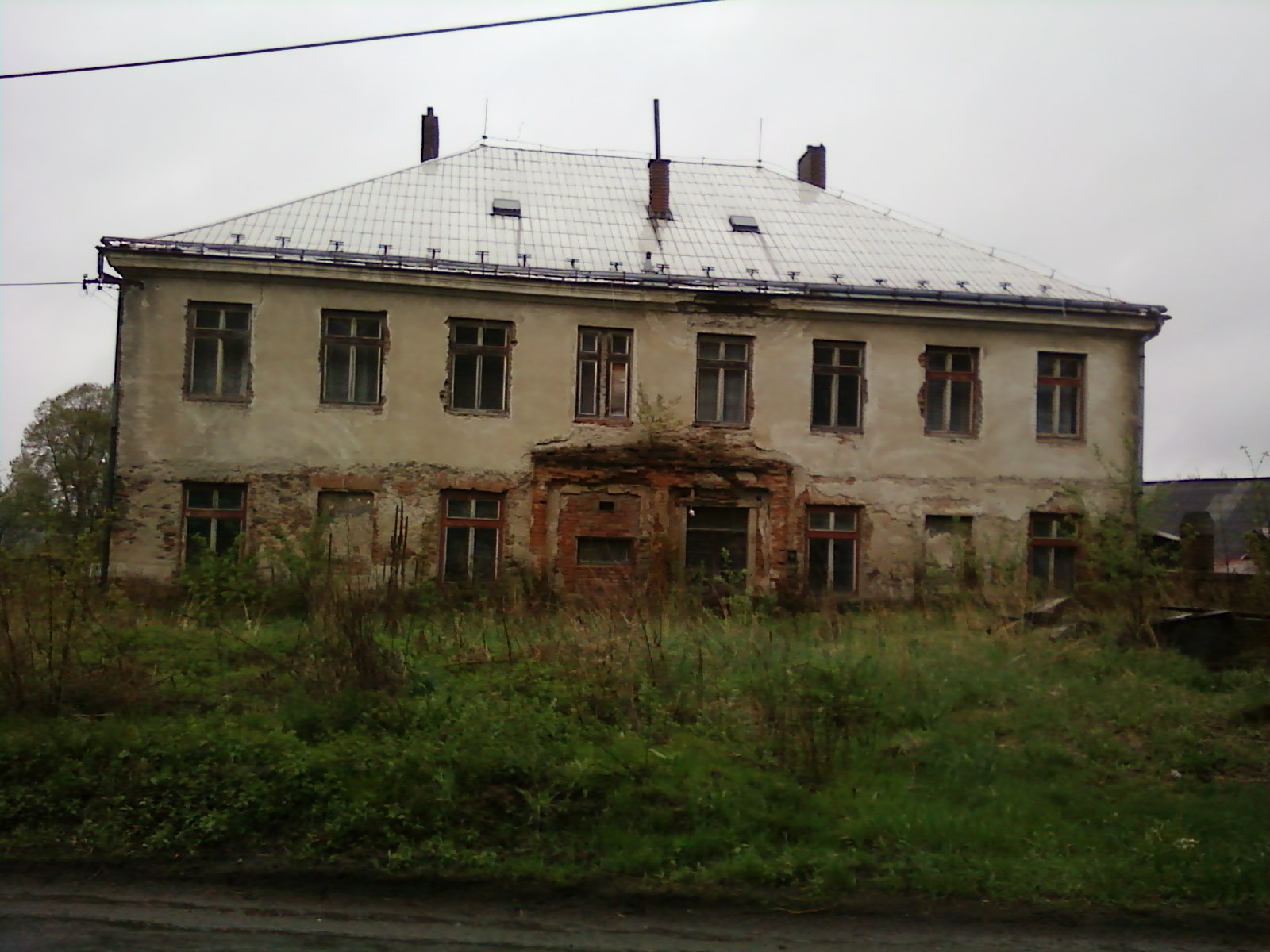 Zámek Květinov (stav v roce 2013)